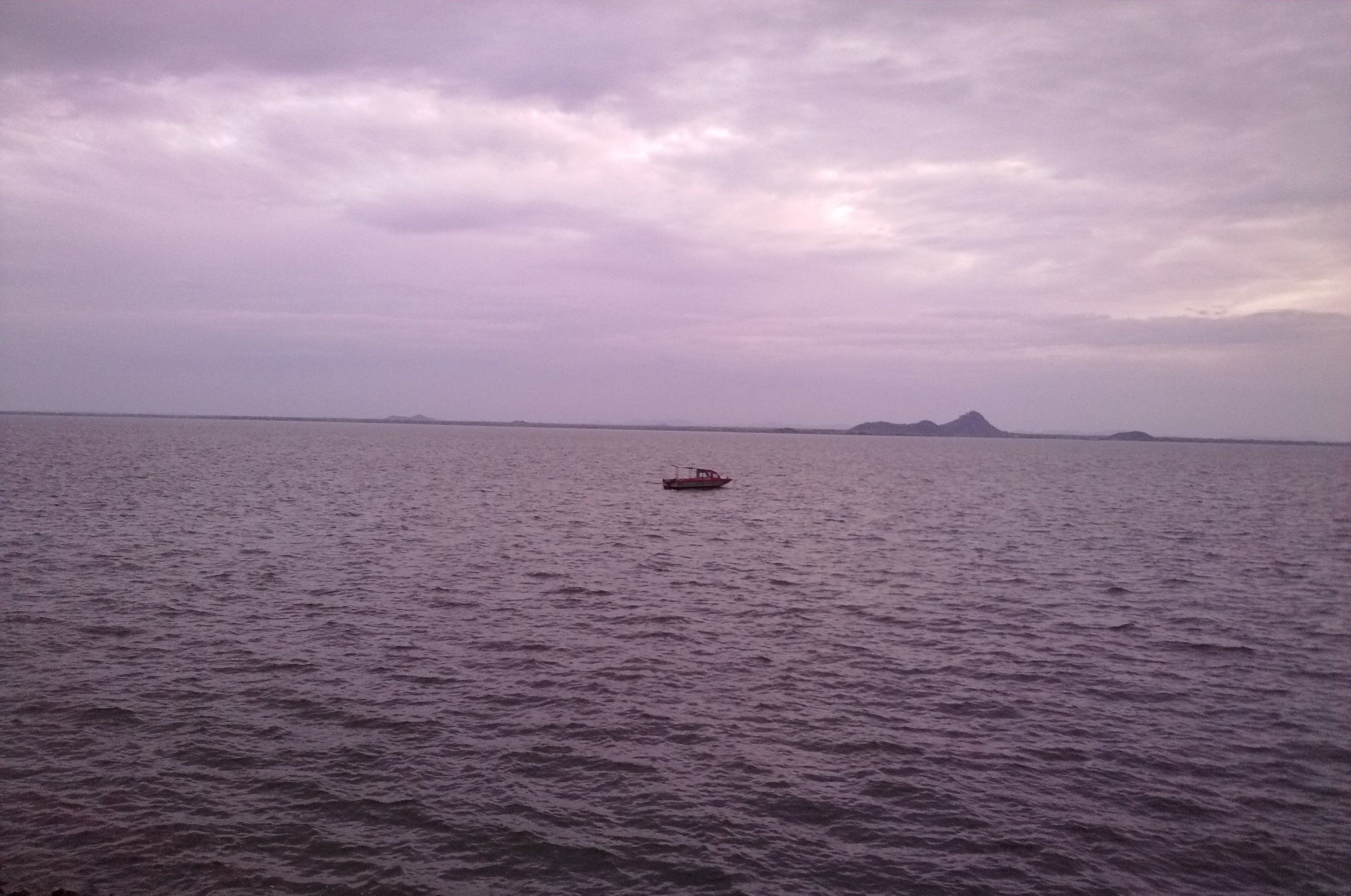 LMD Reservoir